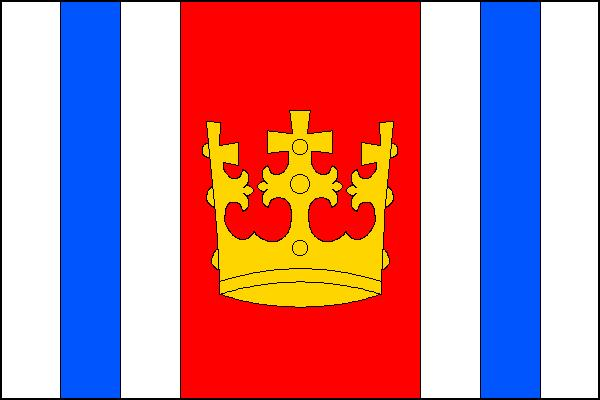 Municipal flag of Žarošice village, Hodonín District, Czech Republic.